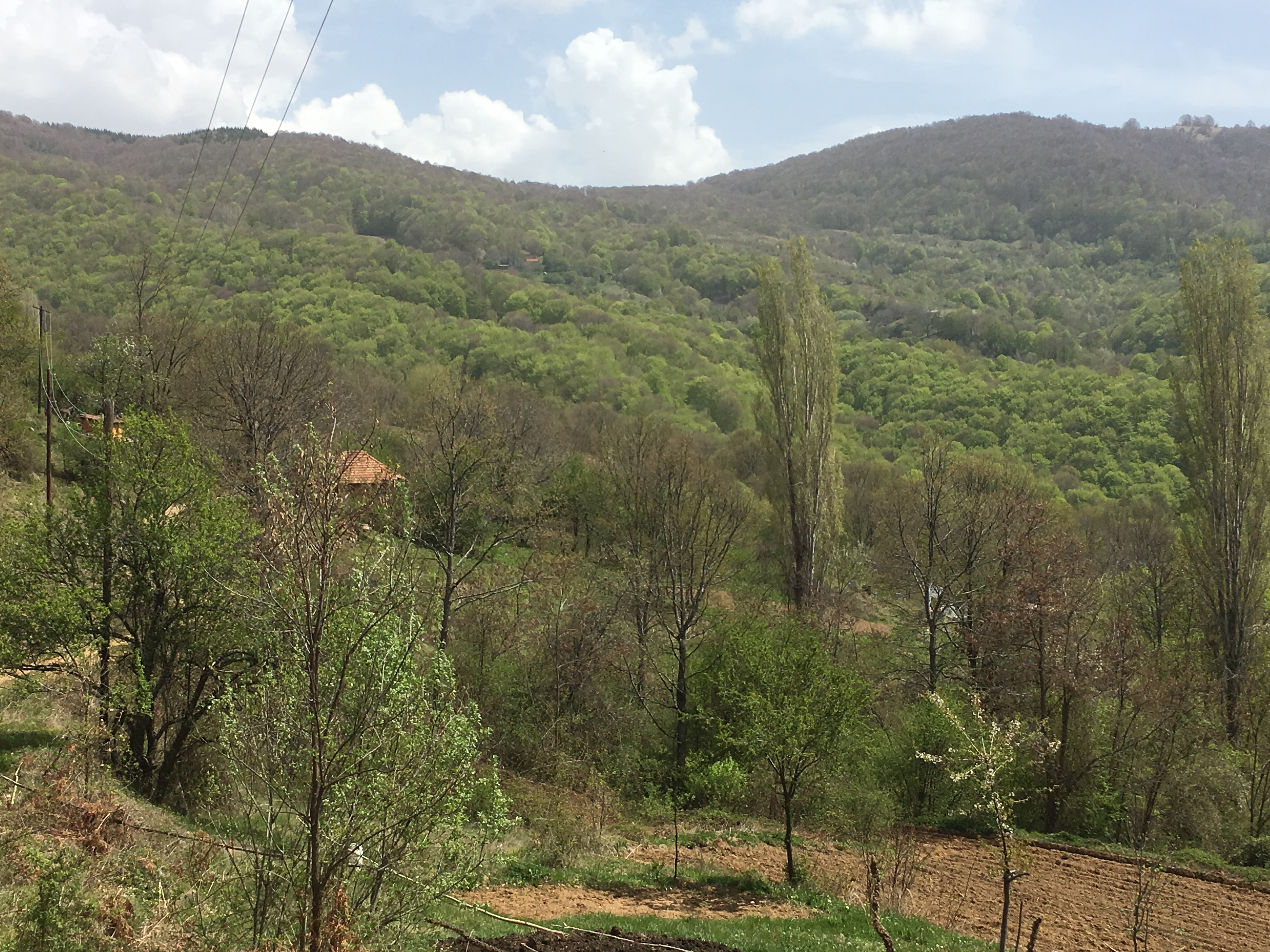 Houses in the village of Borovo